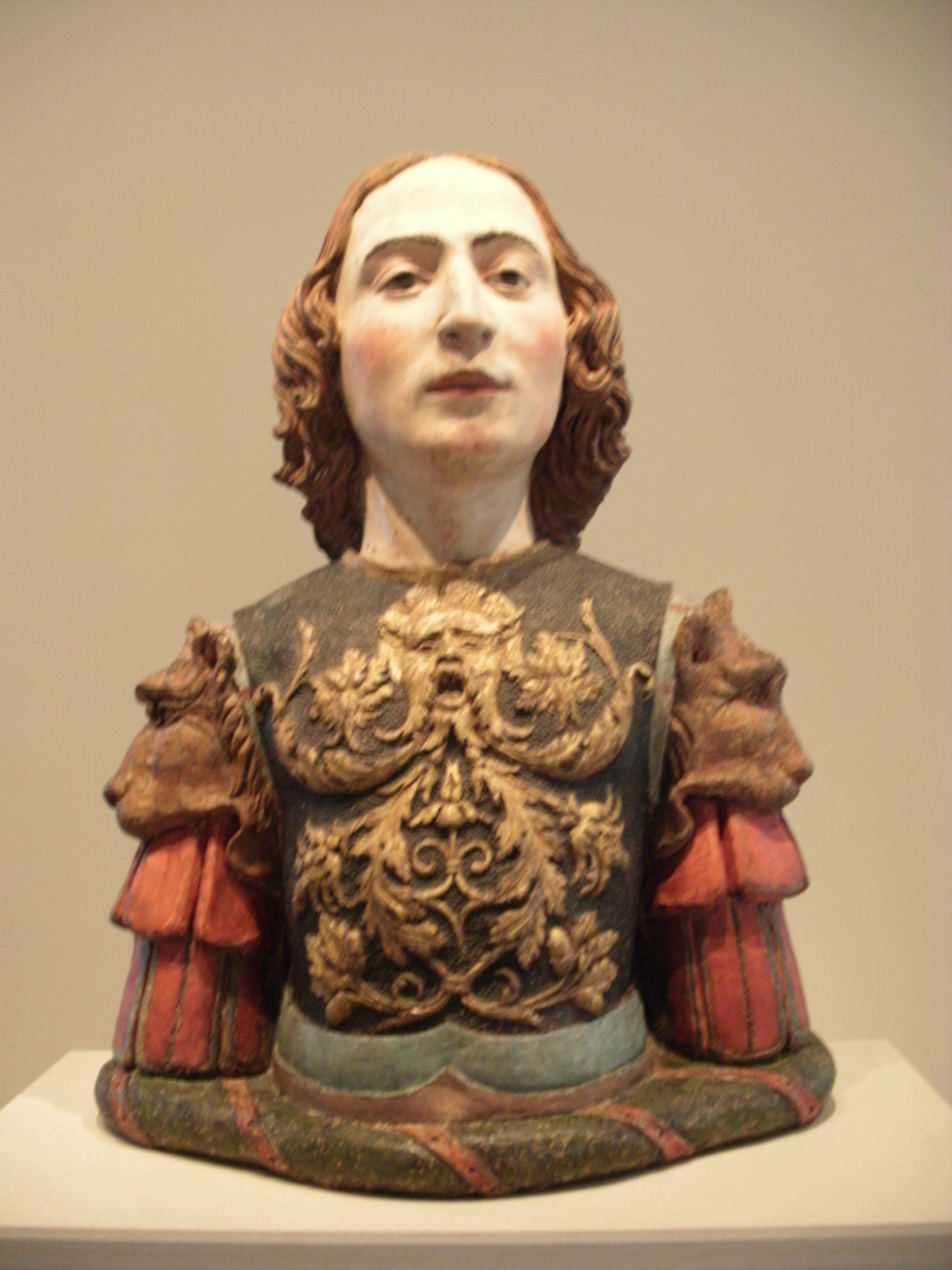 Image taken by me for Wikipedia